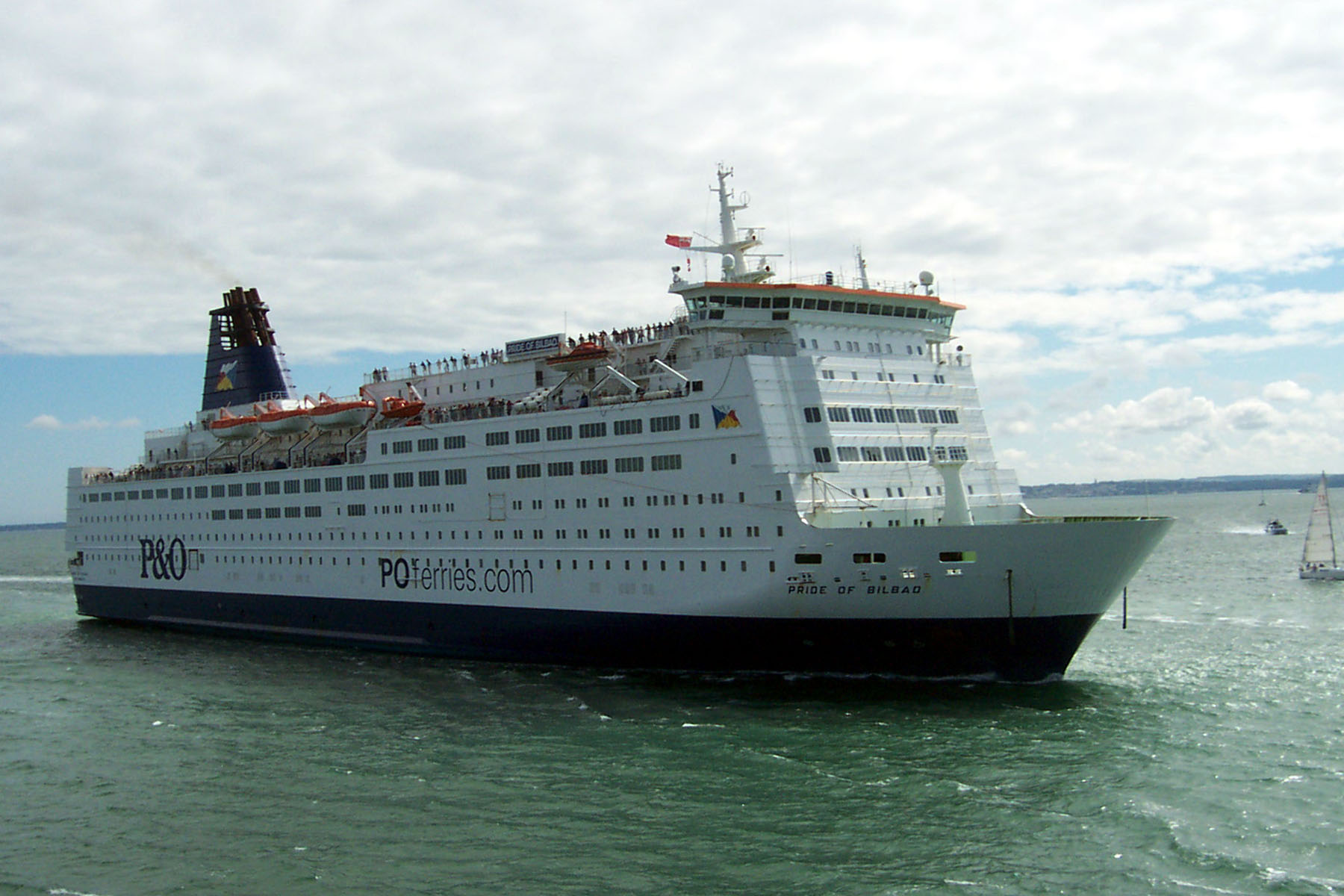 Pride of Bilbao cruiseferry leaving Portsmouth harbour in July 2003.